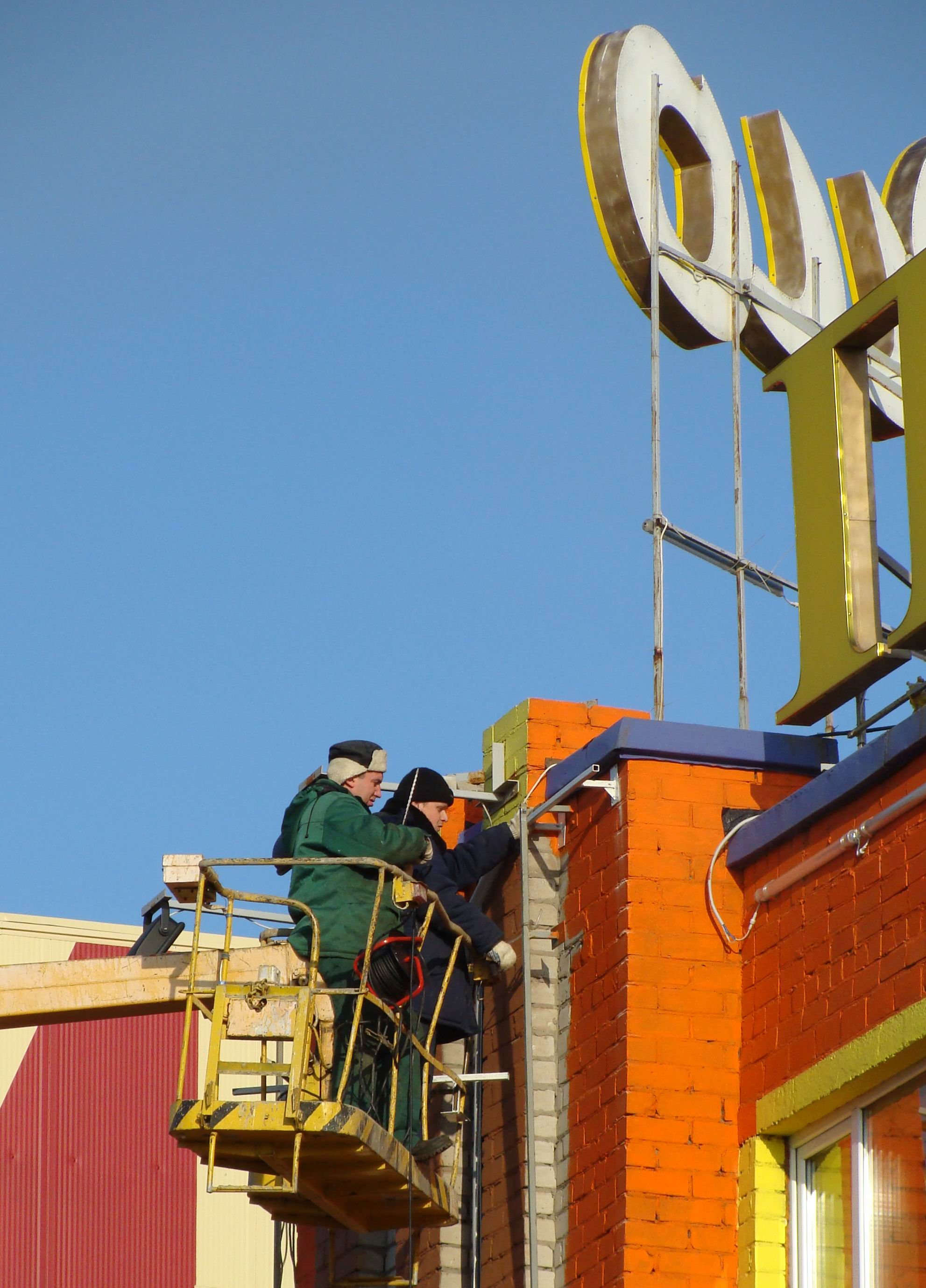 Advertising in Russia